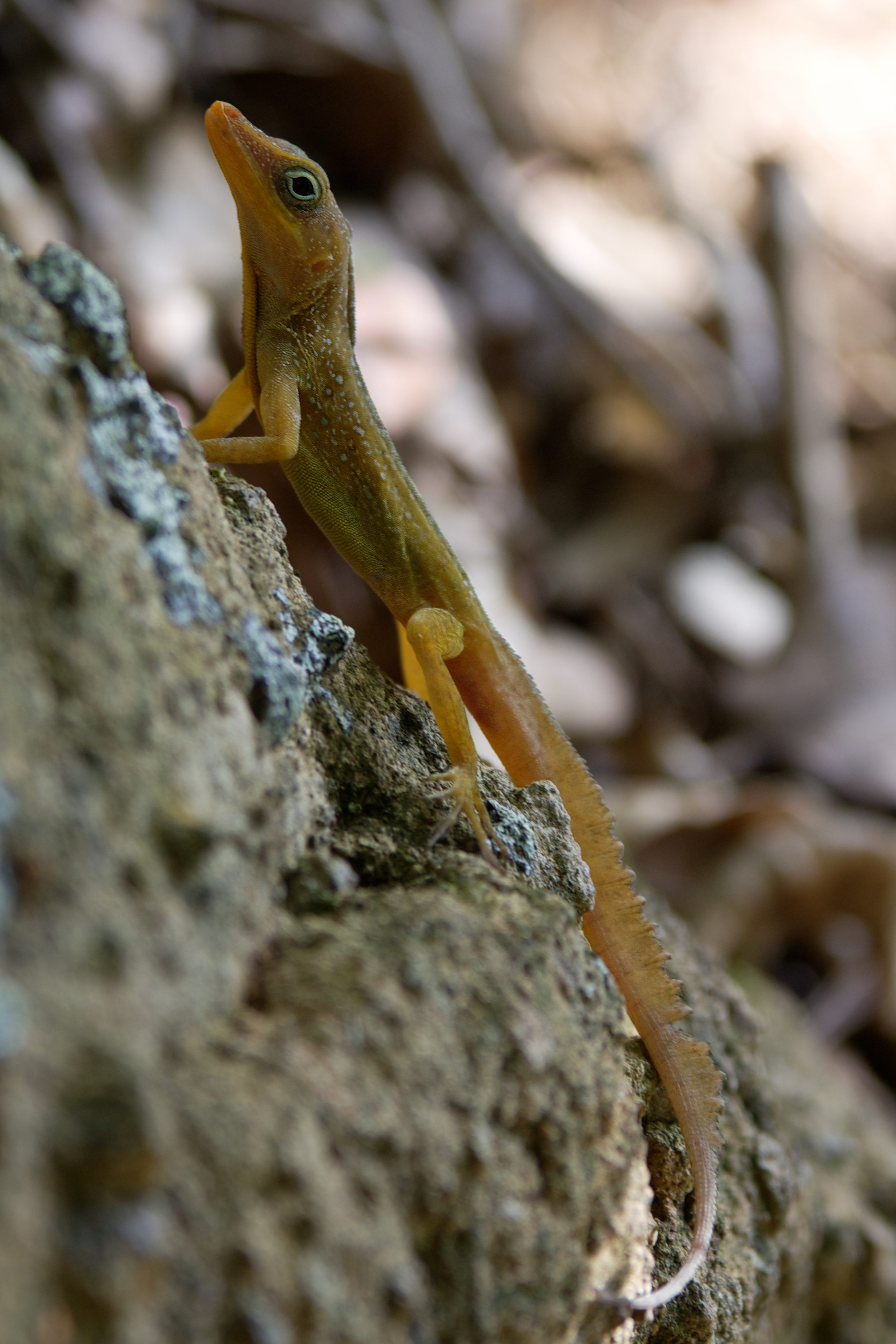 Anolis oculatus sunbathing